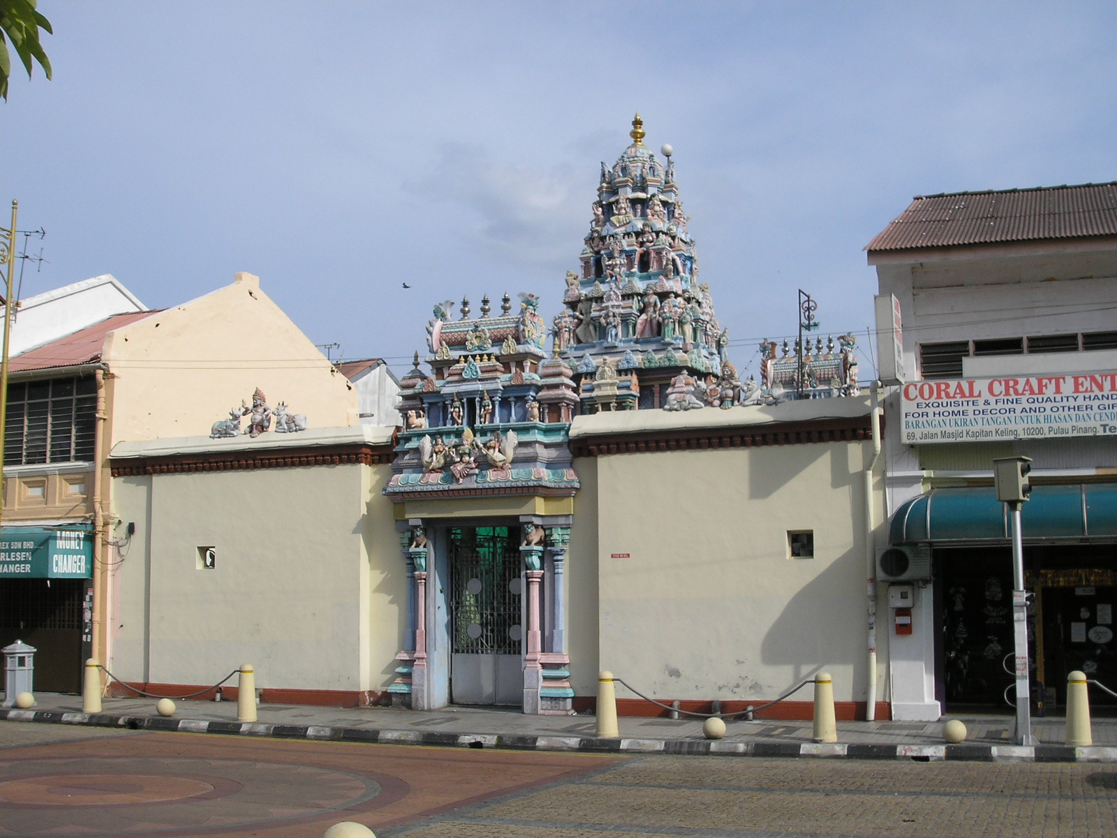 The Mahamariamman Temple (also known as Sri Mariamman Temple), in Georgetown in Penang.